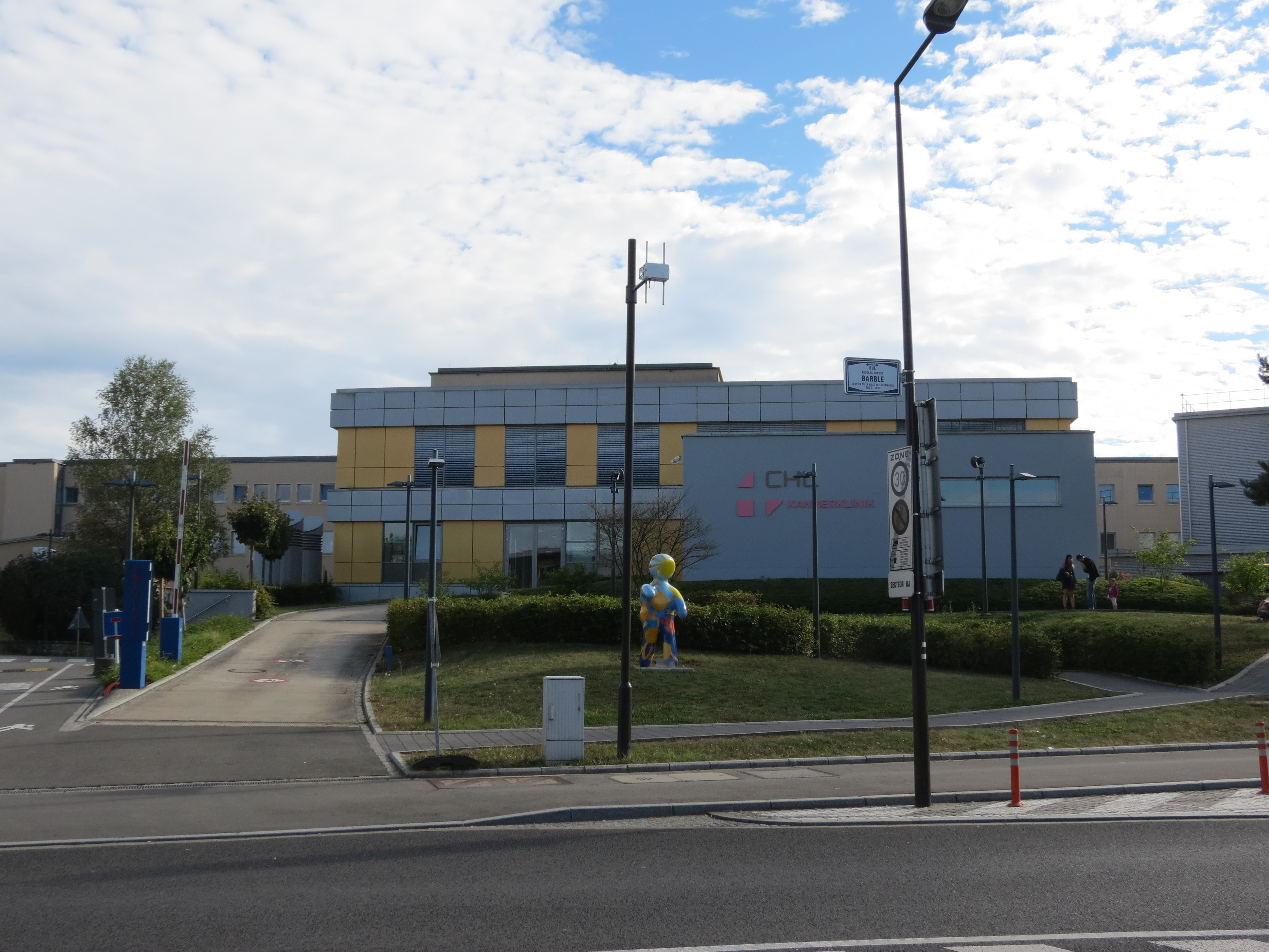 The children's hospital of the Centre Hospitalier de Luxembourg (CHL) in Luxembourg City.